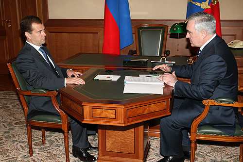 BOCHAROV RUCHEI, SOCHI. With President of the Republic of Ingushetia Murat Zyazikov.